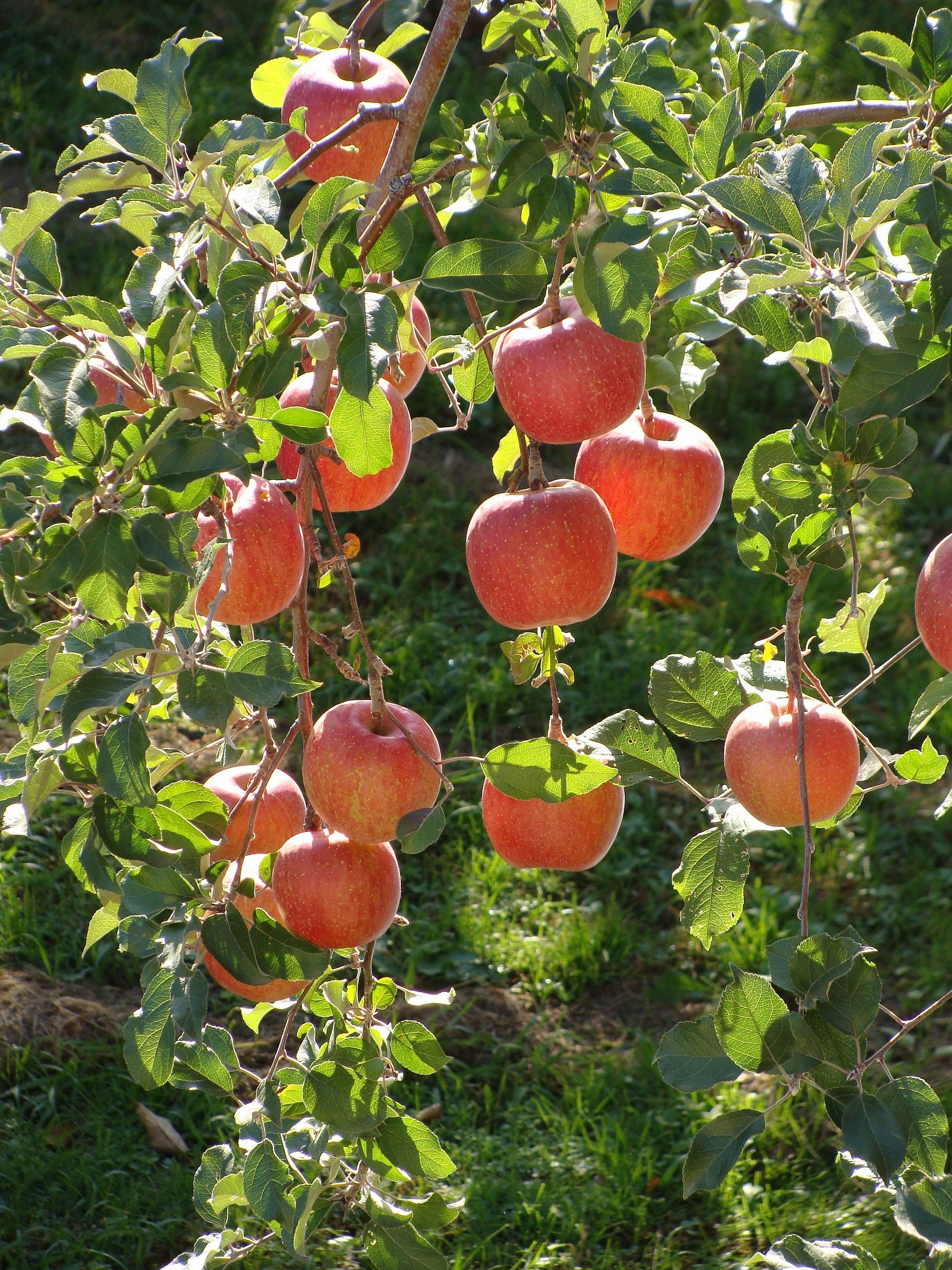 Rosaceae_Malu spumila Malus pumila Var domestica Apples Fuji